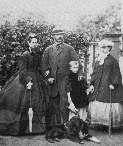 Tsar Alexander II with his wife and their children: Grand Duke Sergei and Grand Duchess Maria Alexandrovna